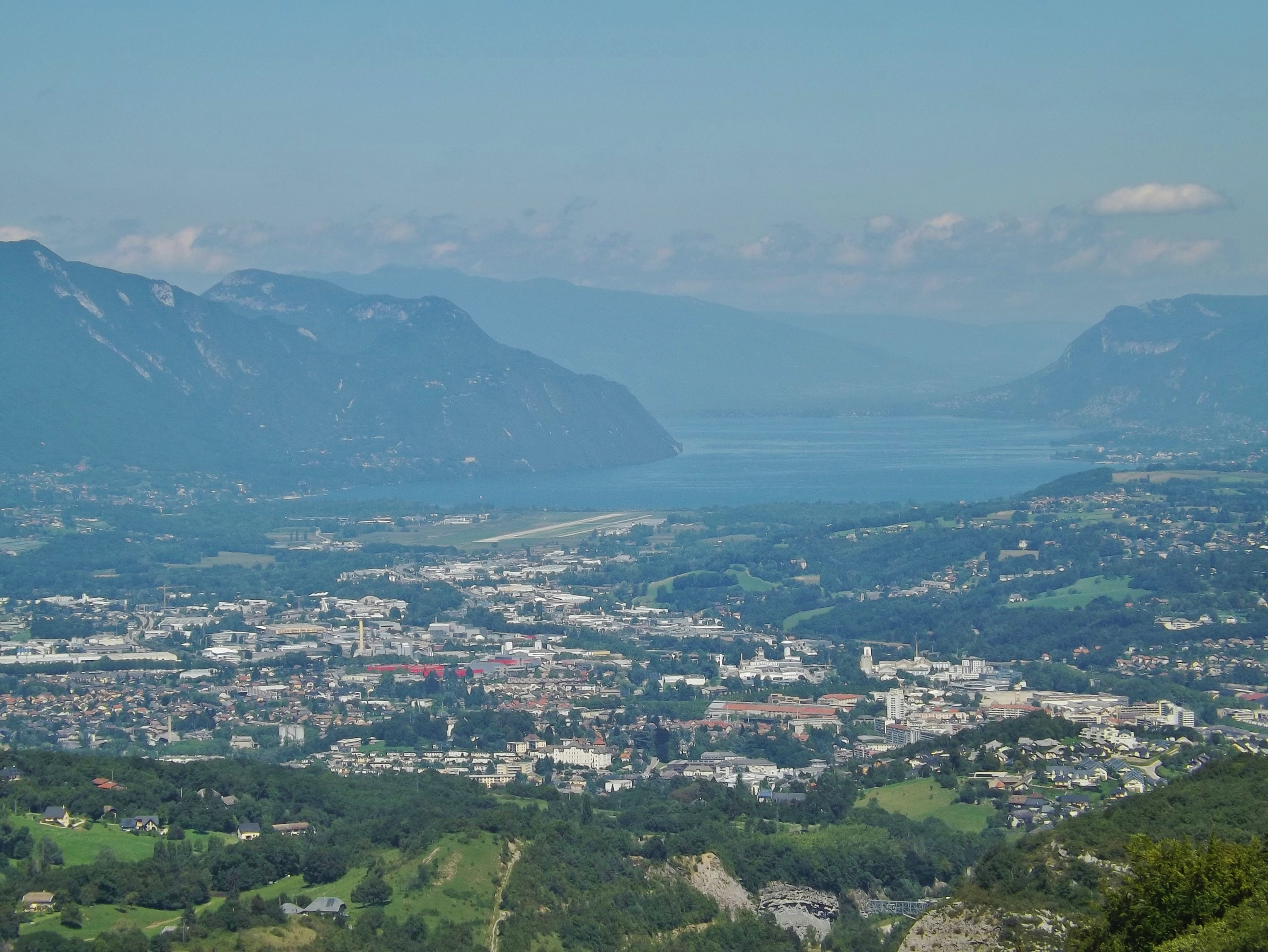 Panoramic sight of the French city of Chambéry and its neighborhood, with the lac du Bourget lake at the background, in Savoie.